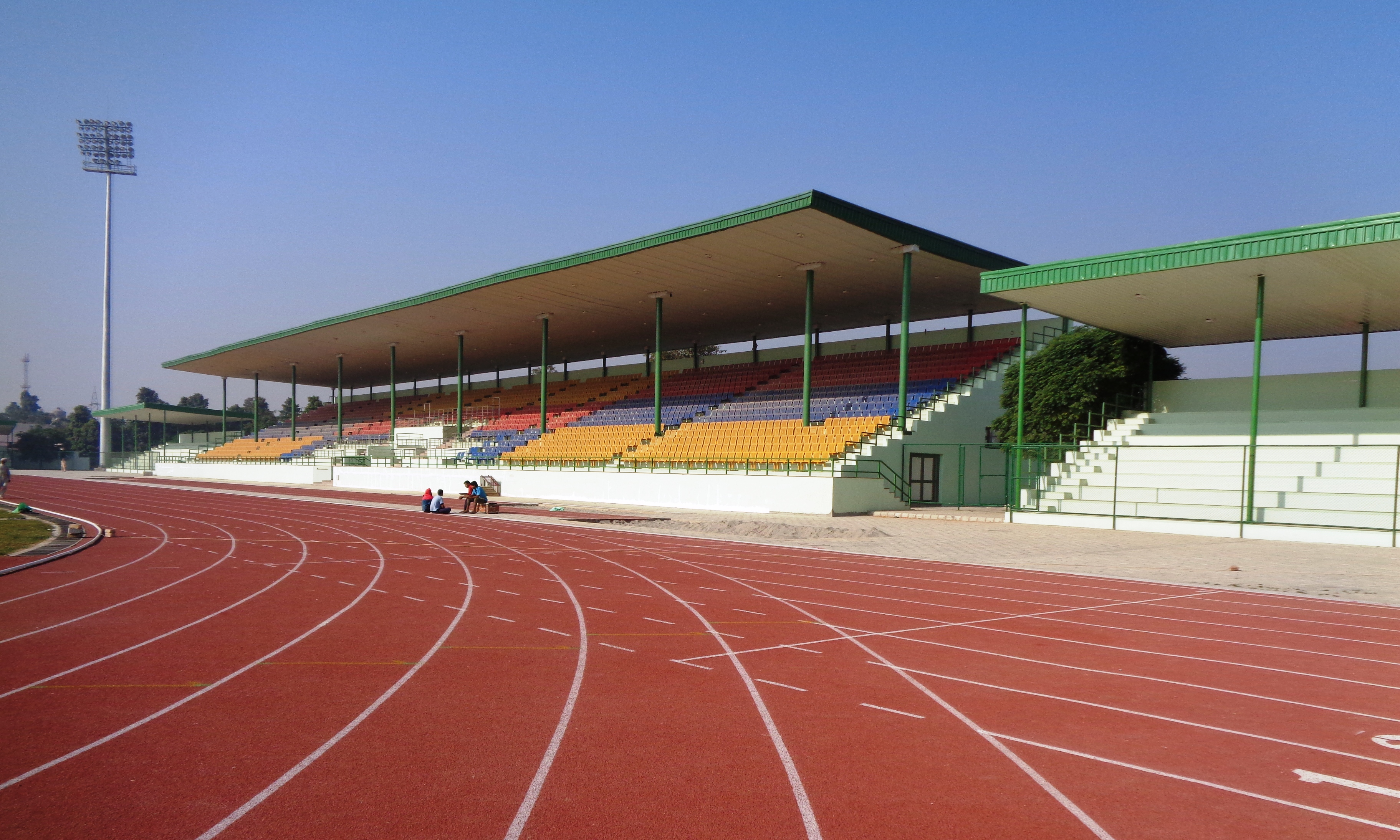 SPORTS STADIUM, BADAL, VIEW-2